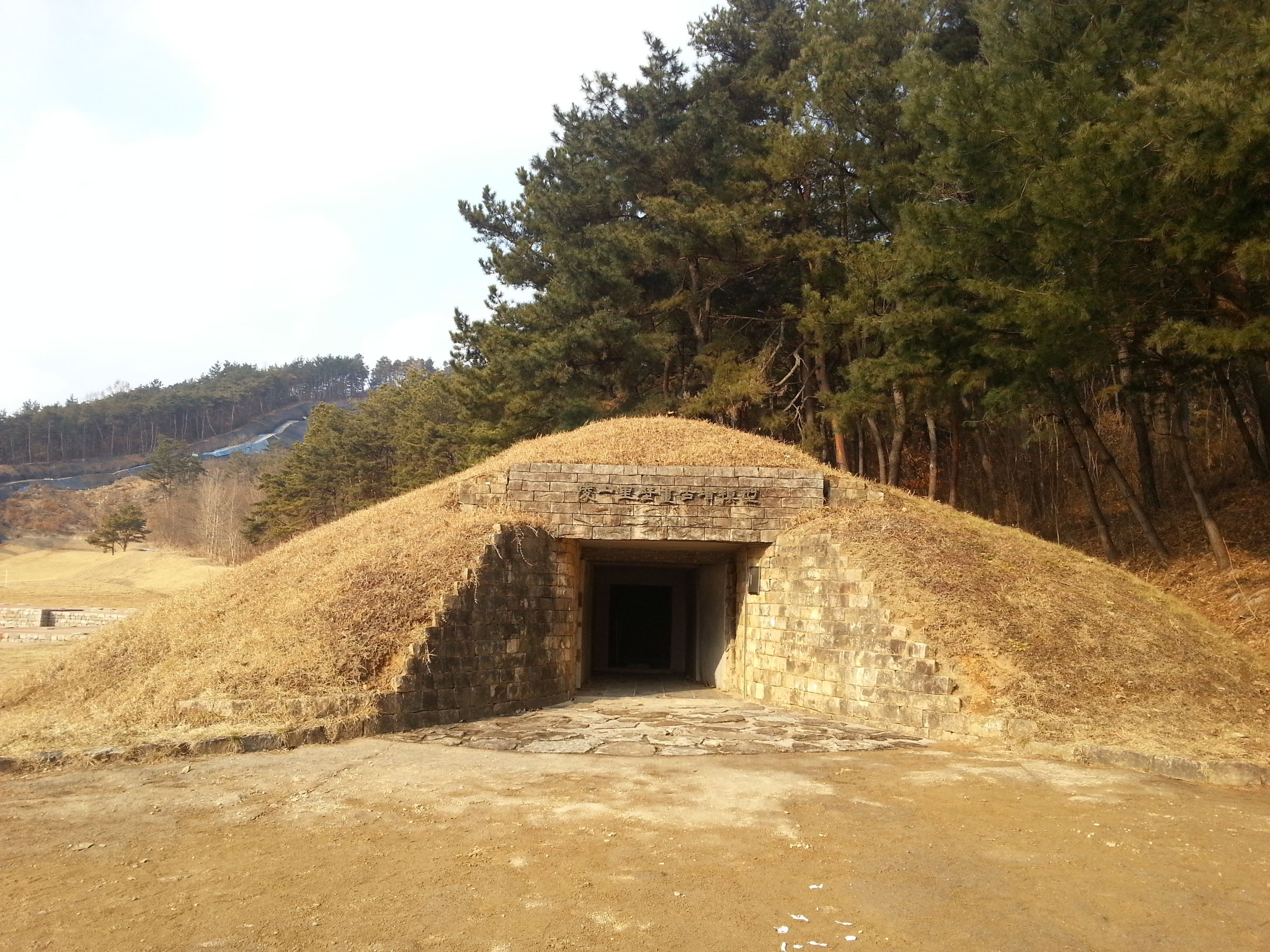 The Baekje Royal Tombs. Buyeo, South Korea.